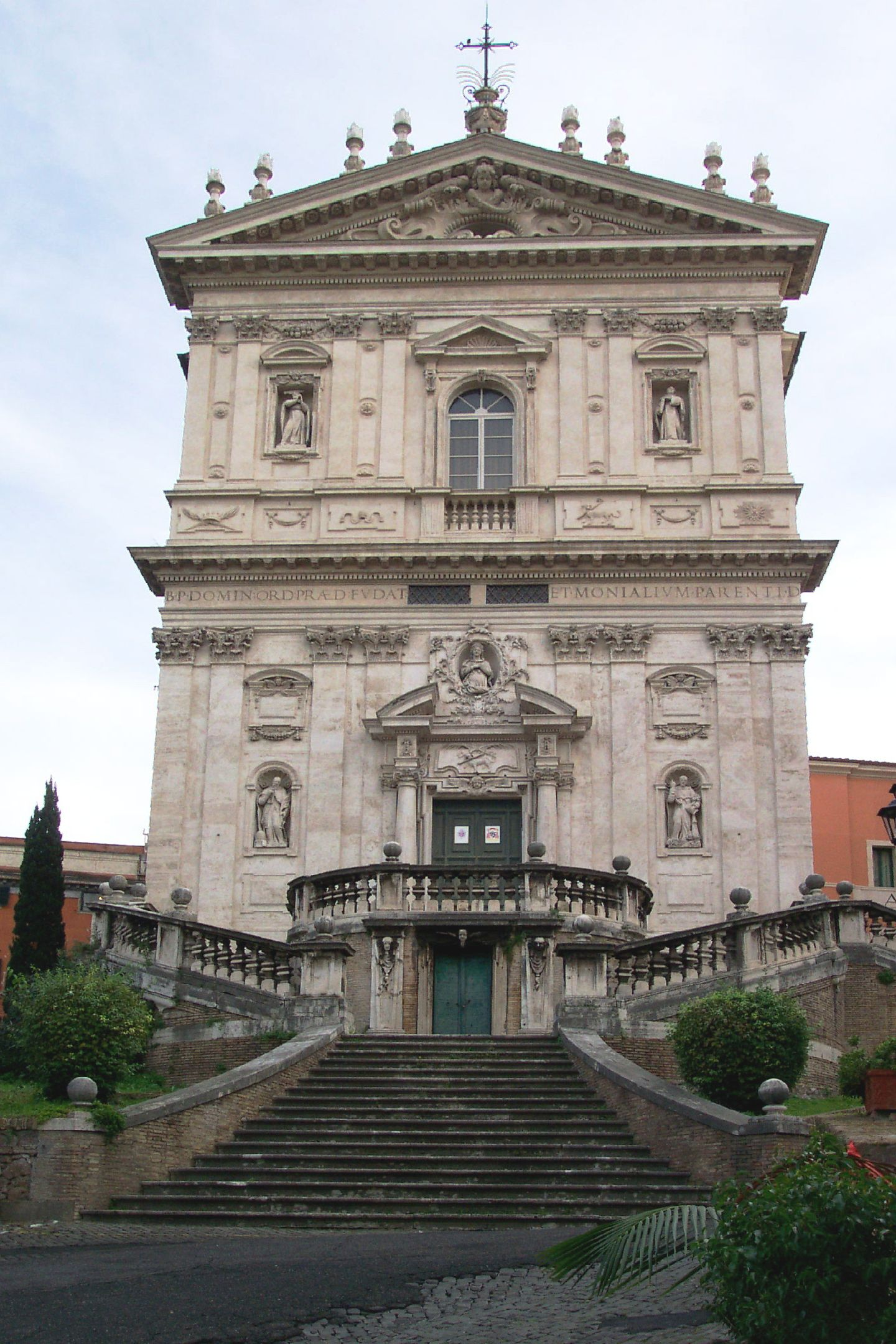 Chapel of Saints Dominic and Sixtus at the Pontifical University of St Thomas Aquinas, Rome.